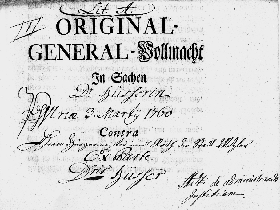 Document from a case record showing a Quadrangel called sign in the top left corner.